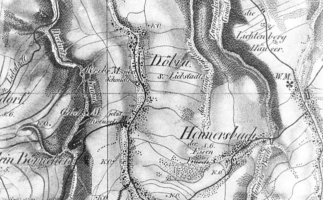 old map of Döbra and Hennersbach (near Liebstadt).